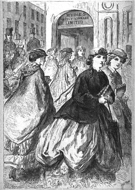 "Going to Mudie's." London Society v.16, no.95, Nov. 1869.